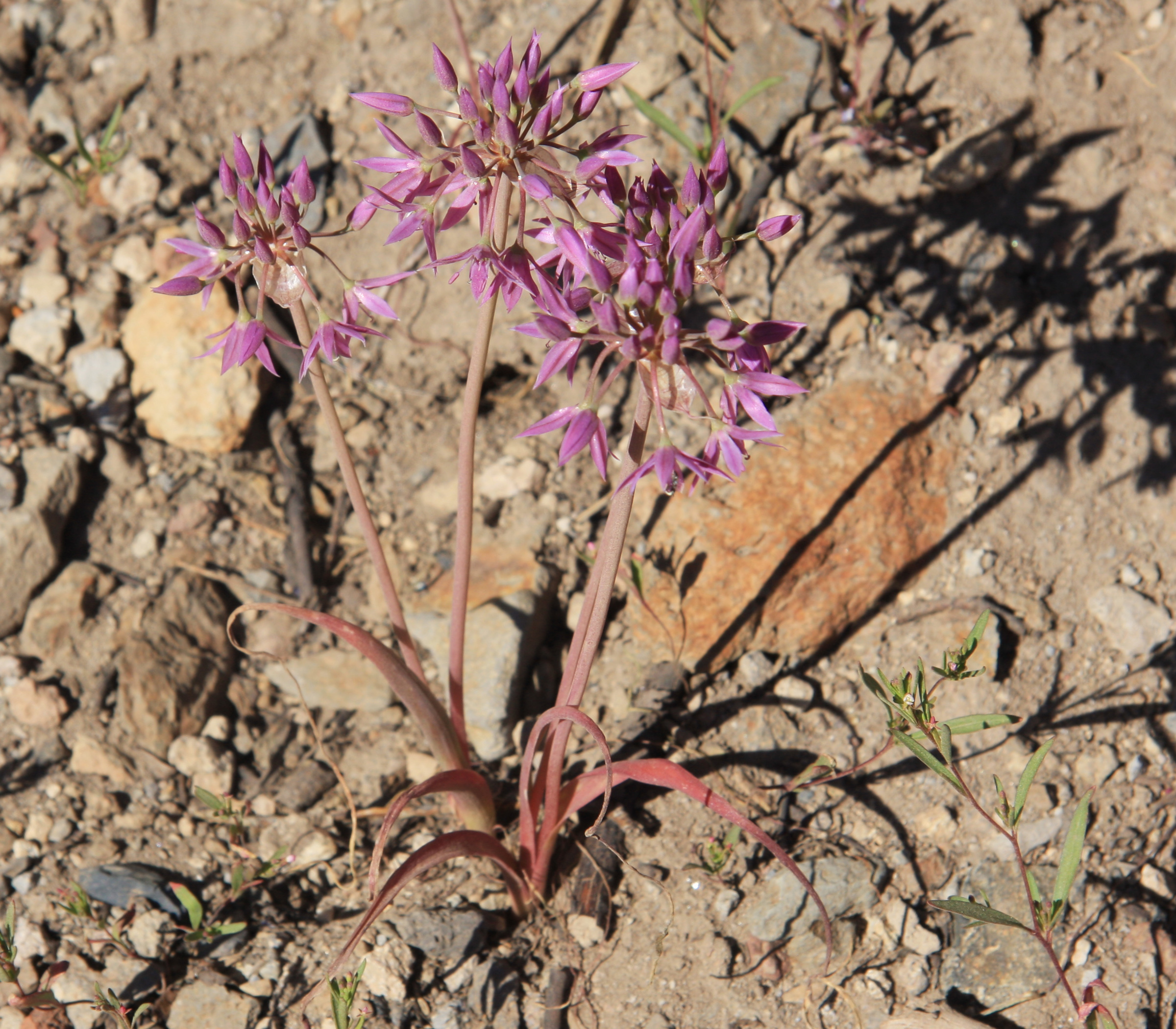 Sierra onion (Allium campanulatum); plant with 3 flowerheads. At about 9000 ft. along High Trail (part of Pacific Crest Trail) from Agnew Meadows to Agnew Pass, Ansel Adams Wilderness, Sierra Nevada, California.